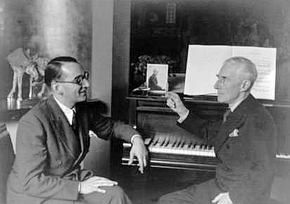 Jacques Février (left) with Maurive Ravel in Paris in 1937.